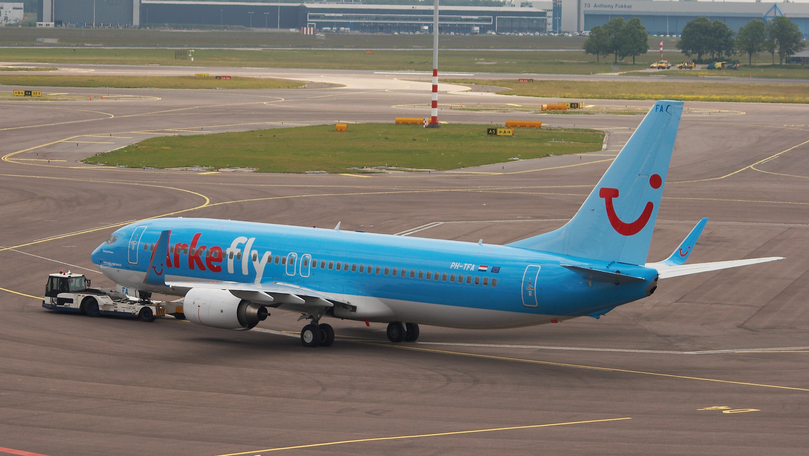 Aircraft: Boeing 737-8K5 Airline: Arkefly Registration/CN: PH-TFA (cn 35100/2424) Place: Amsterdam - Schiphol (AMS / EHAM)